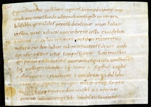 Document in which Fischen and Rauhenzell in Allgäu (Germany) were mentioned for. the first time It was written on 860-09-23 AD. Today it's in the Stiftarchiv St. Gallen (StiASG, Urk. III 236).